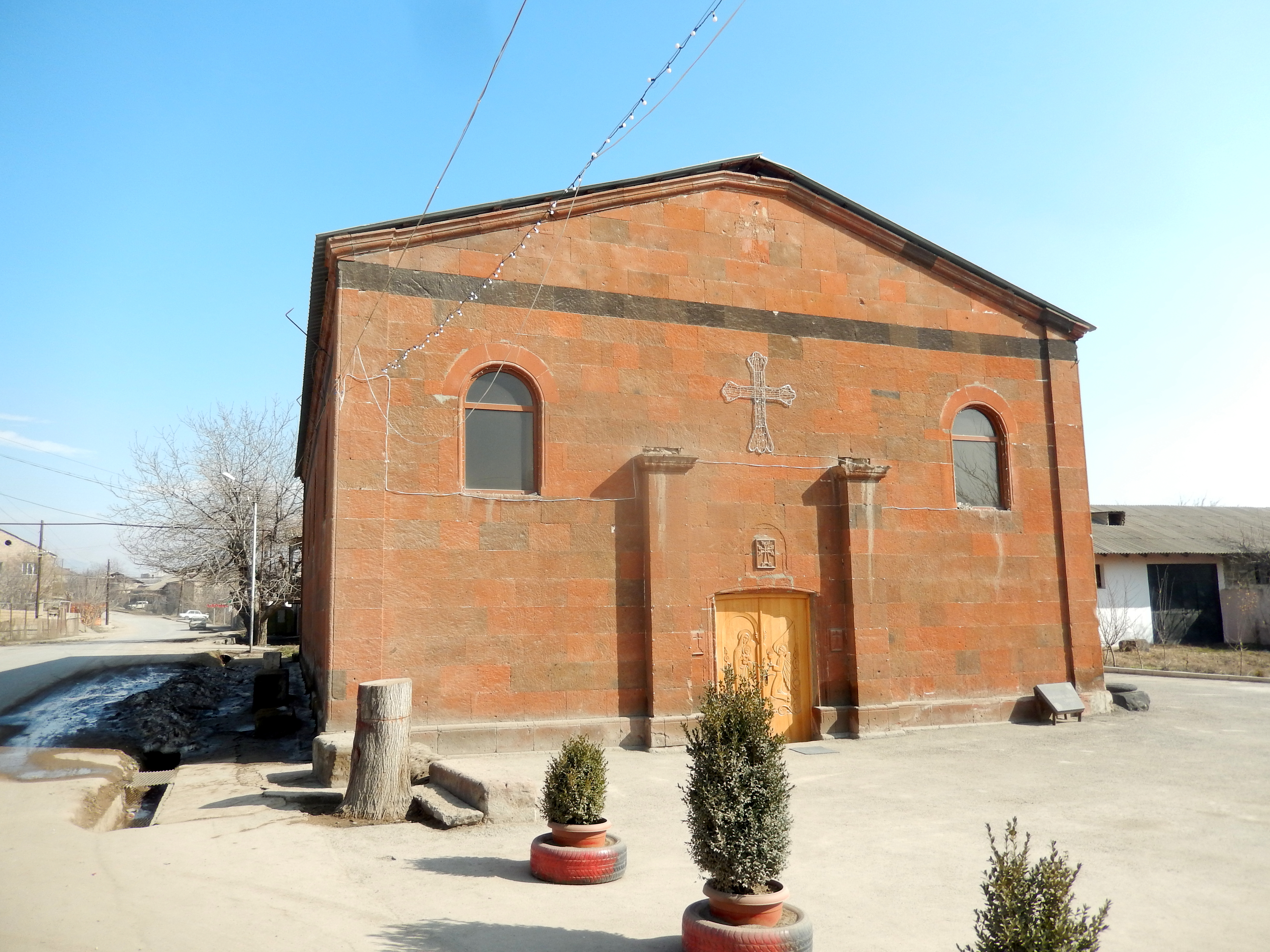 St Mary Church, Verin Artashat